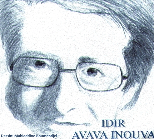 Drawing of Hamid CHERIET, known as IDIR. By Mahieddine Boumendjel